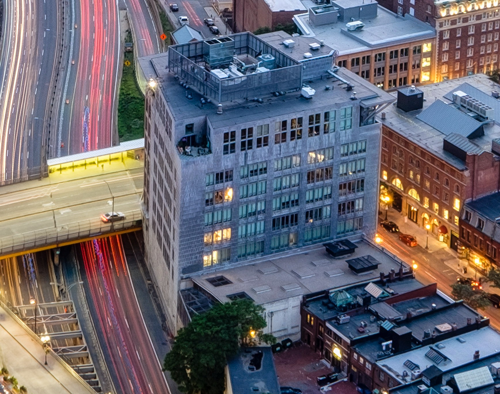 360 Newbury Street viewed from the Prudential Tower in July 2015